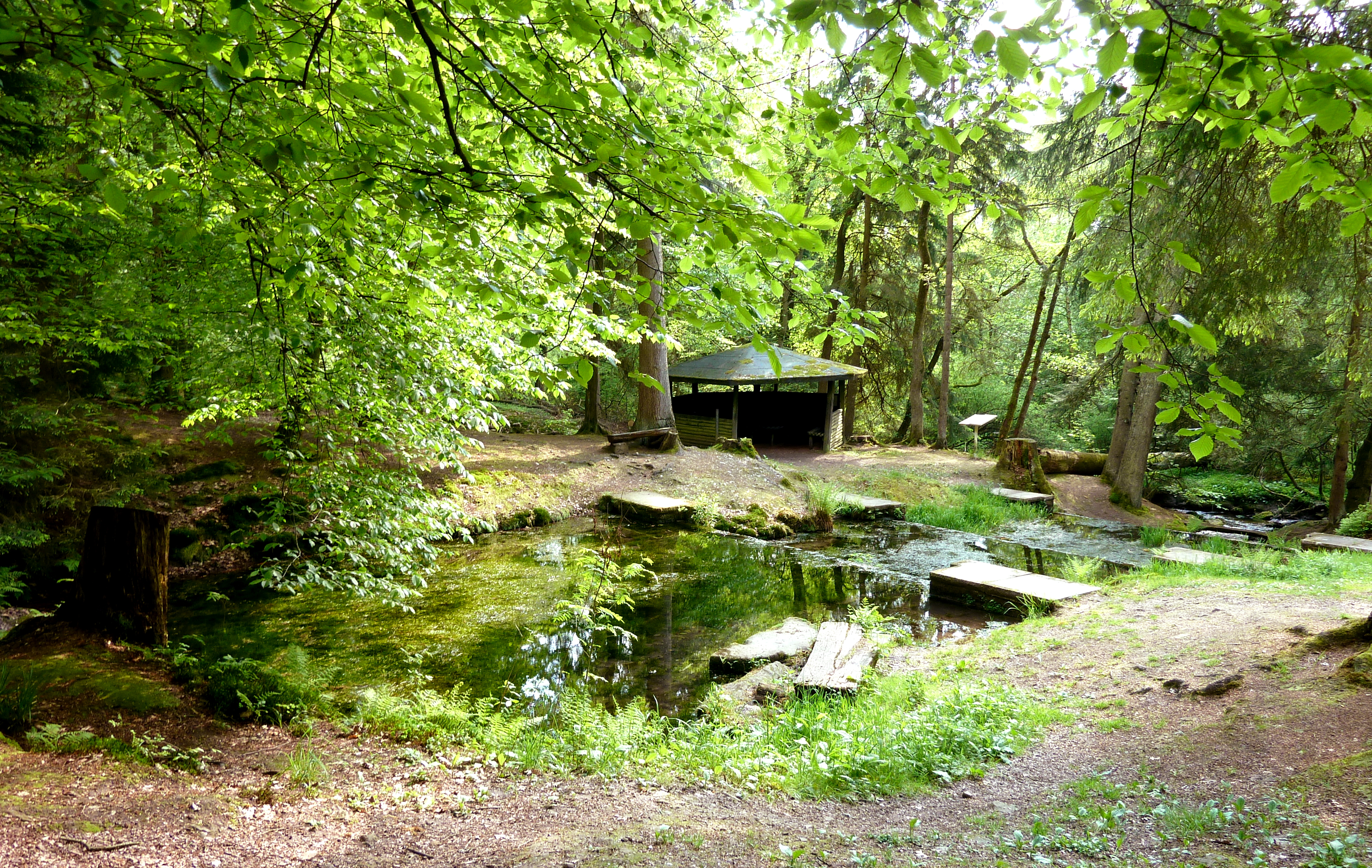 One of the springs of the Ahle near Neuhaus in Solling